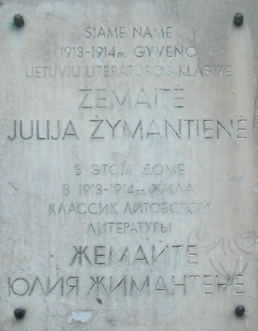 Plaque in memory of Lithuanian writer Žemaitė (pseudonym of Julija Beniuševičiūtė-Žymantienė; 1845—1921) in Vilnius (Basanavičiaus g. 19; she lived here in 1913-1914).